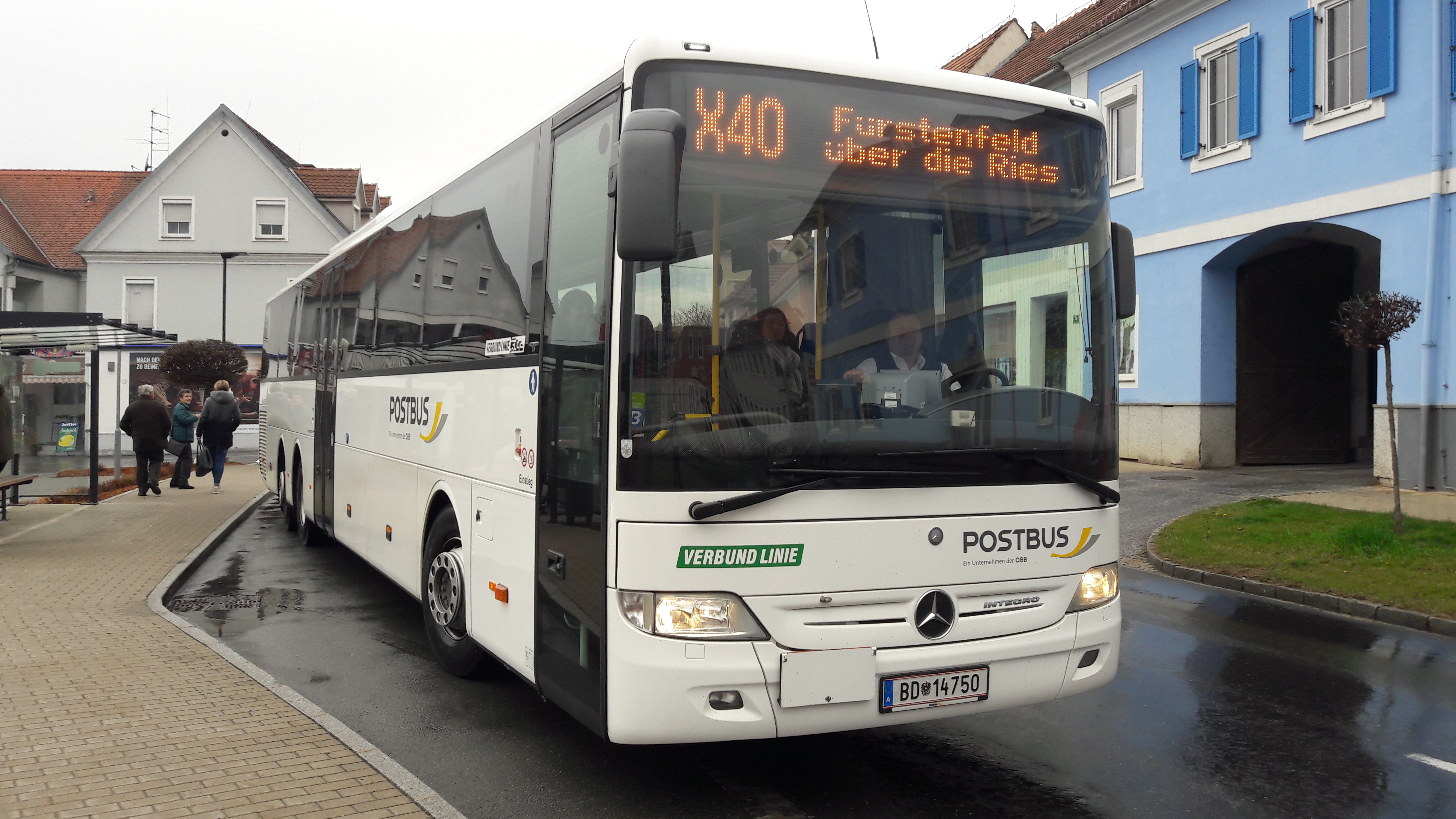 Mercedes Bus Integro in Austria